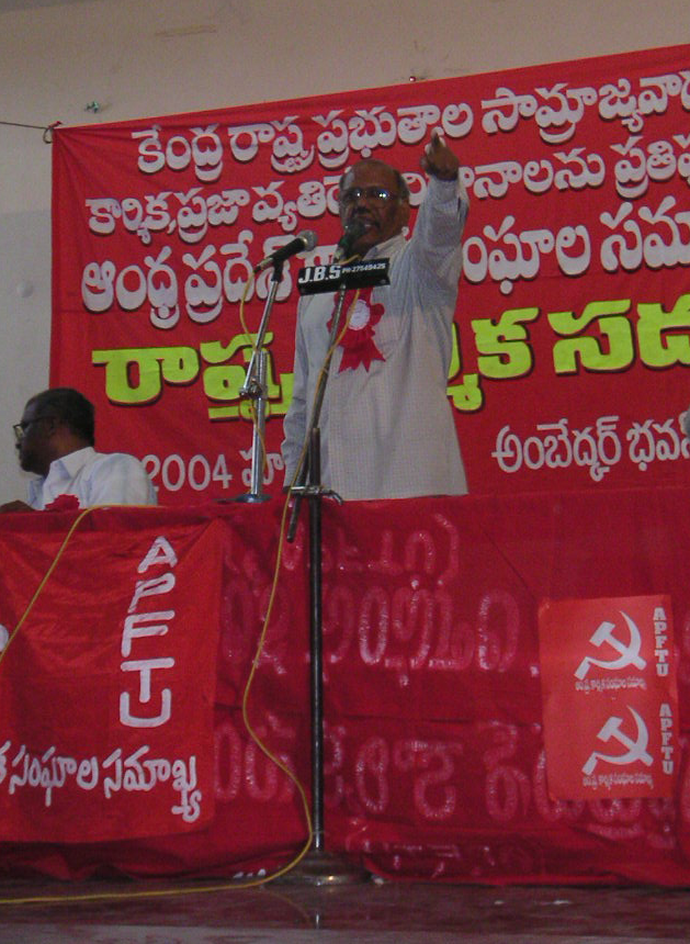 photo of N.V. Krishnaiah